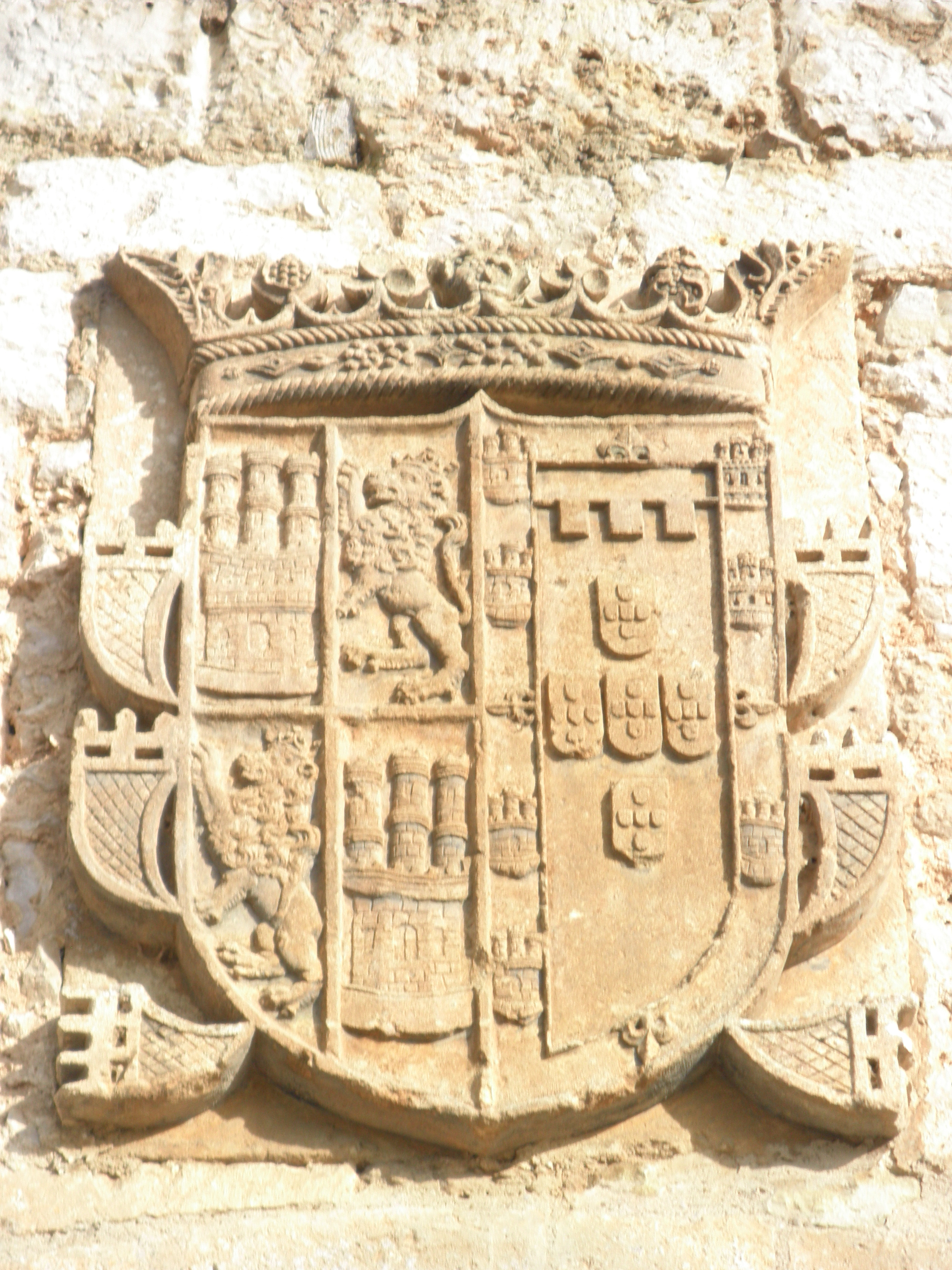 Coat of arms of Isabella of Portugal, Queen of Castile, at the Cartuja de Miraflores, Burgos